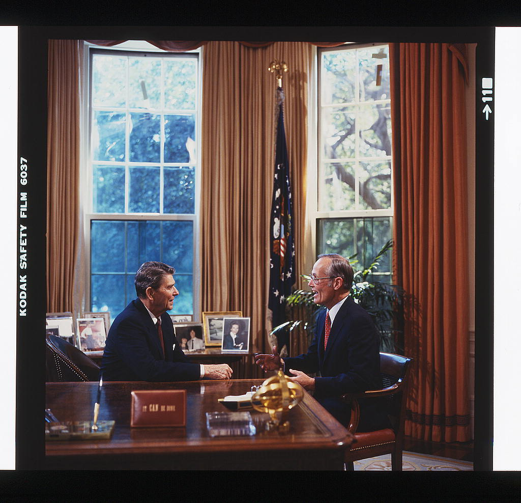 White House. President Ronald Reagan, at his desk in the Oval Office, speaking with republican senator Slade Gorton of Washington. Washington, D.C., 1987, LC-DIG-pplot-13557-00789 (digital file from LC-HS505-114)